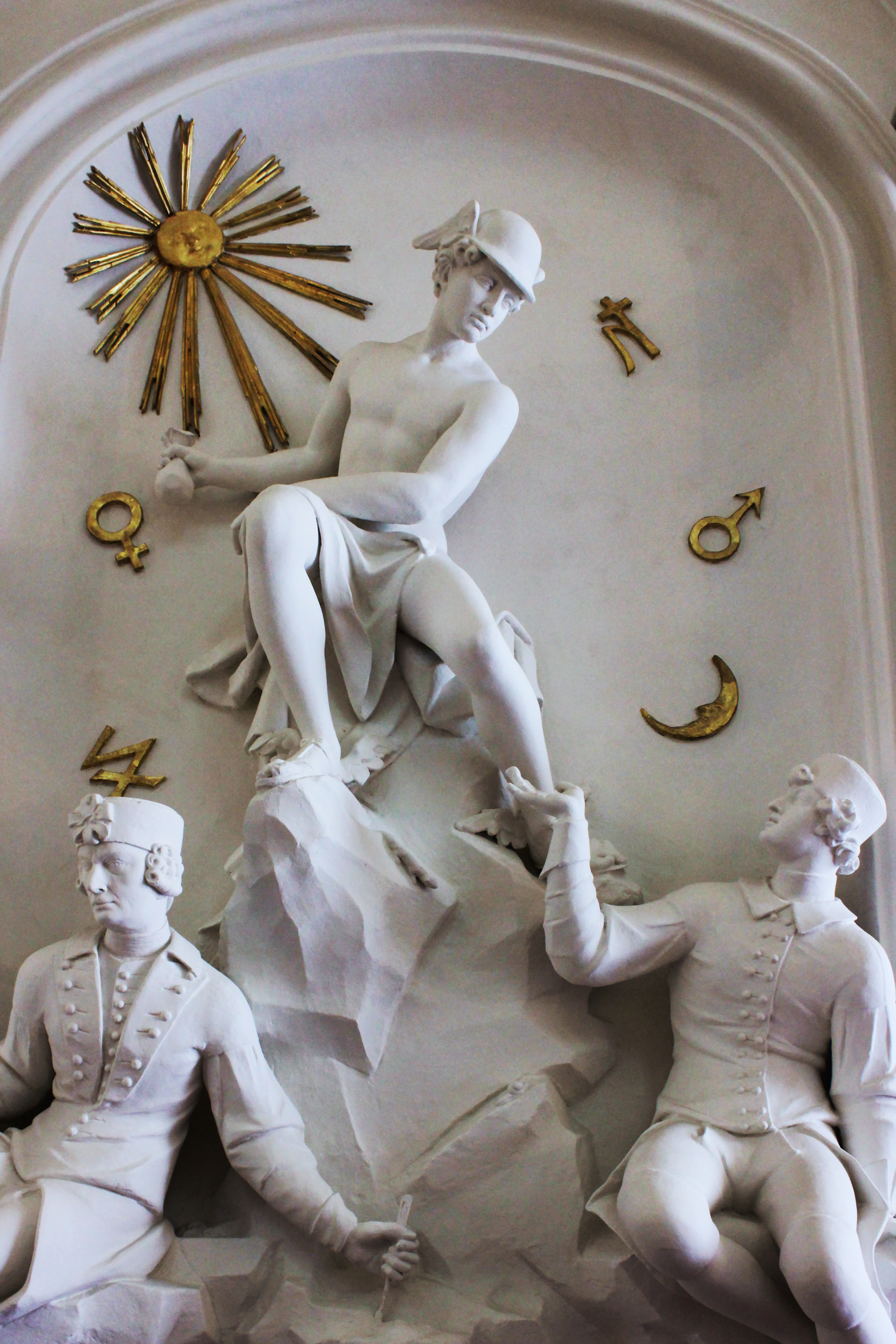 Statue of Hermes on the upper landing of the grand staircase in the Winterpalais of Prince Eugen, Vienna